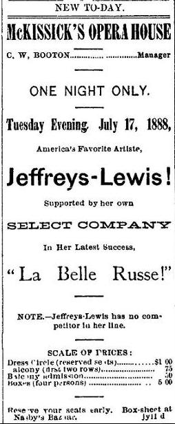 Ad for actress Mary Jeffreys Lewis (abt. 1852-1926) in the play La Belle Russe.